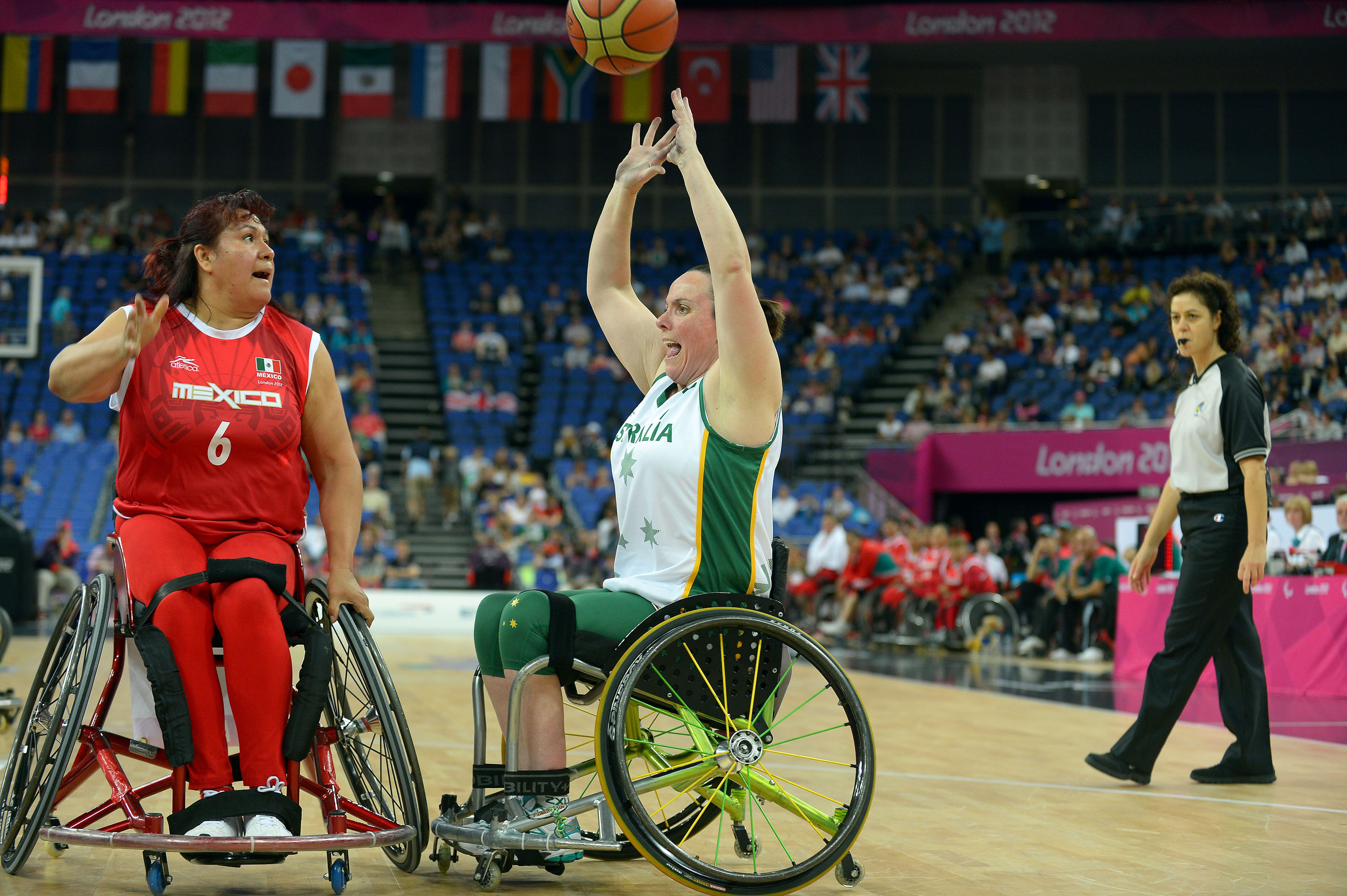 Photograph of Australian Paralympic team member Amanda Carter at the 2012 Summer Paralympic Games in London